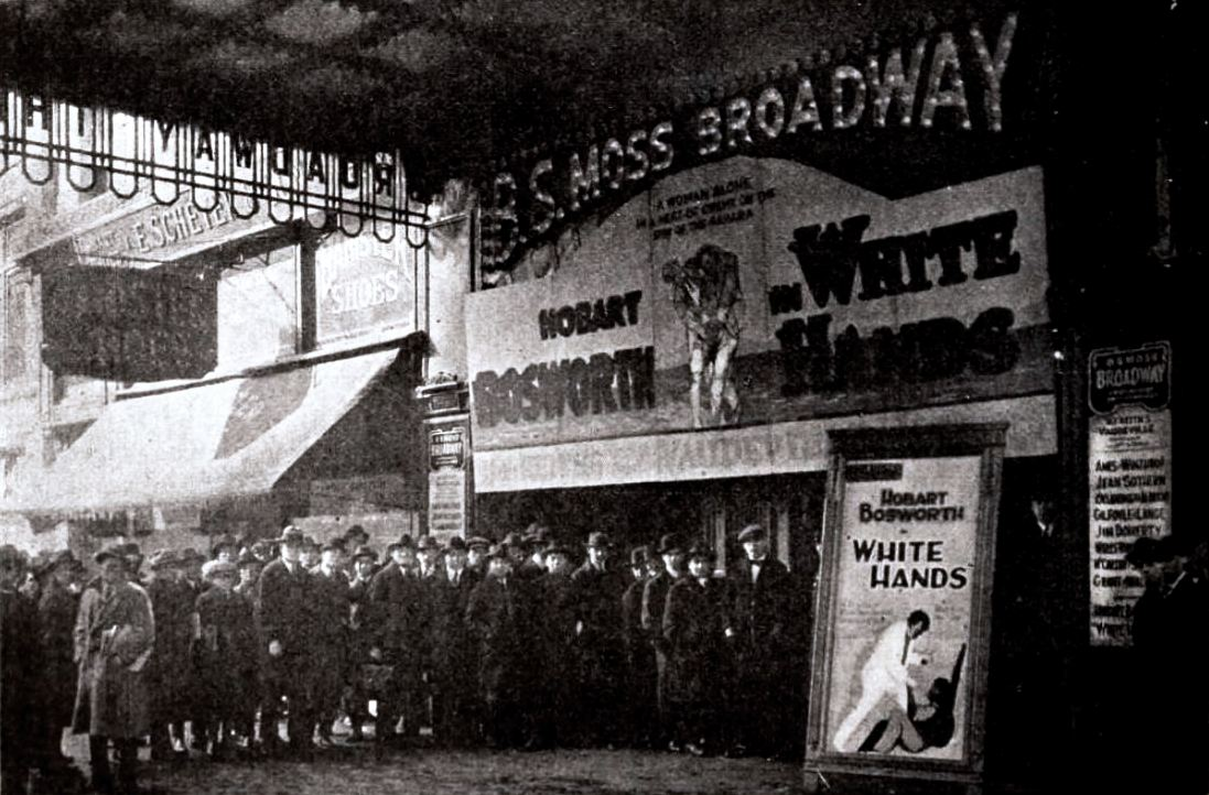 The B. S. Moss Broadway Theater showing the American drama film White Hands (1922), on page 50 of the February 25, 1922 Exhibitors Herald.